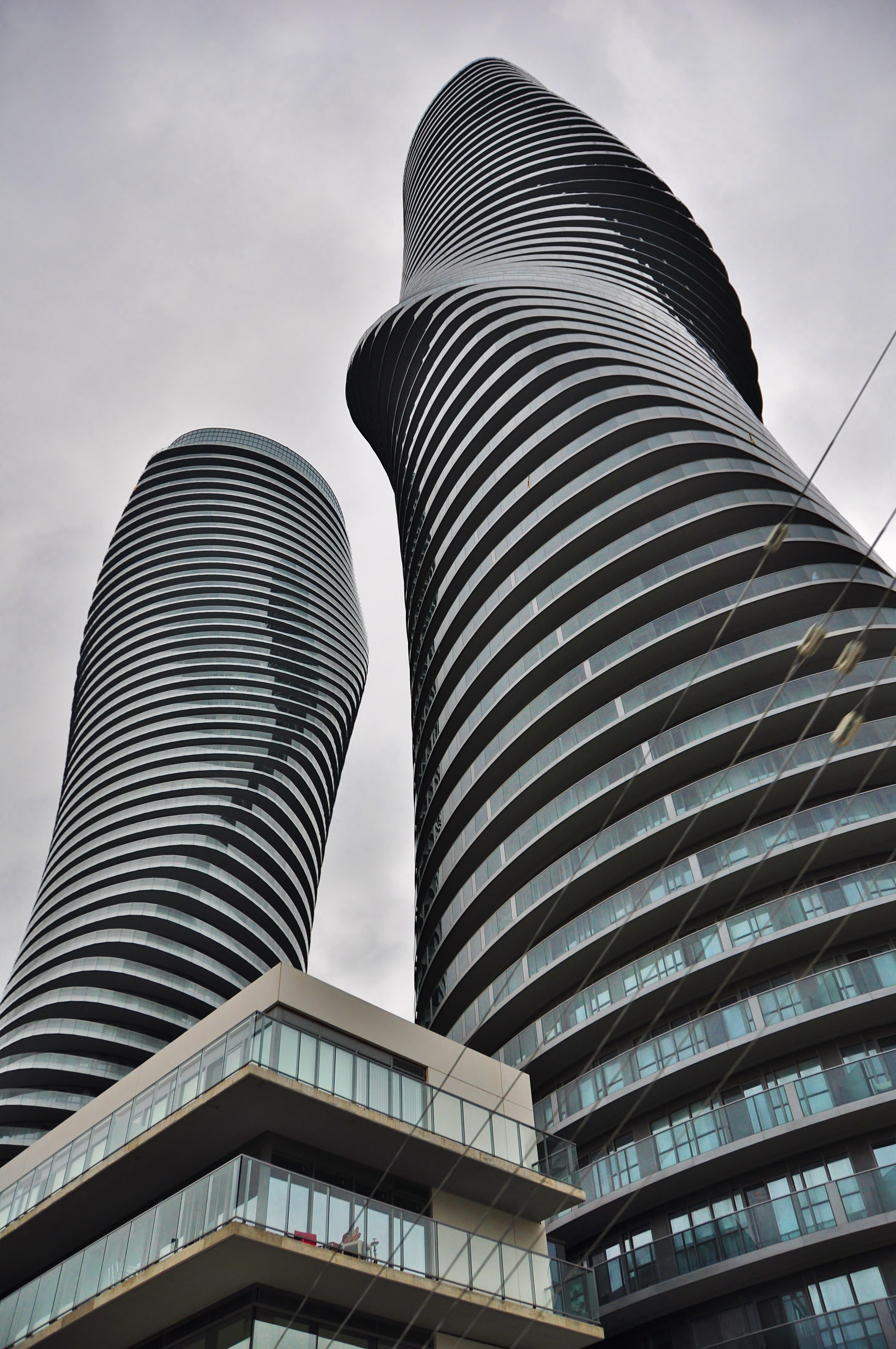 Absolute World Towers - residential skyscrapers in Mississauga, Toronto. Architect Yansong Ma, China. Erected 2012.